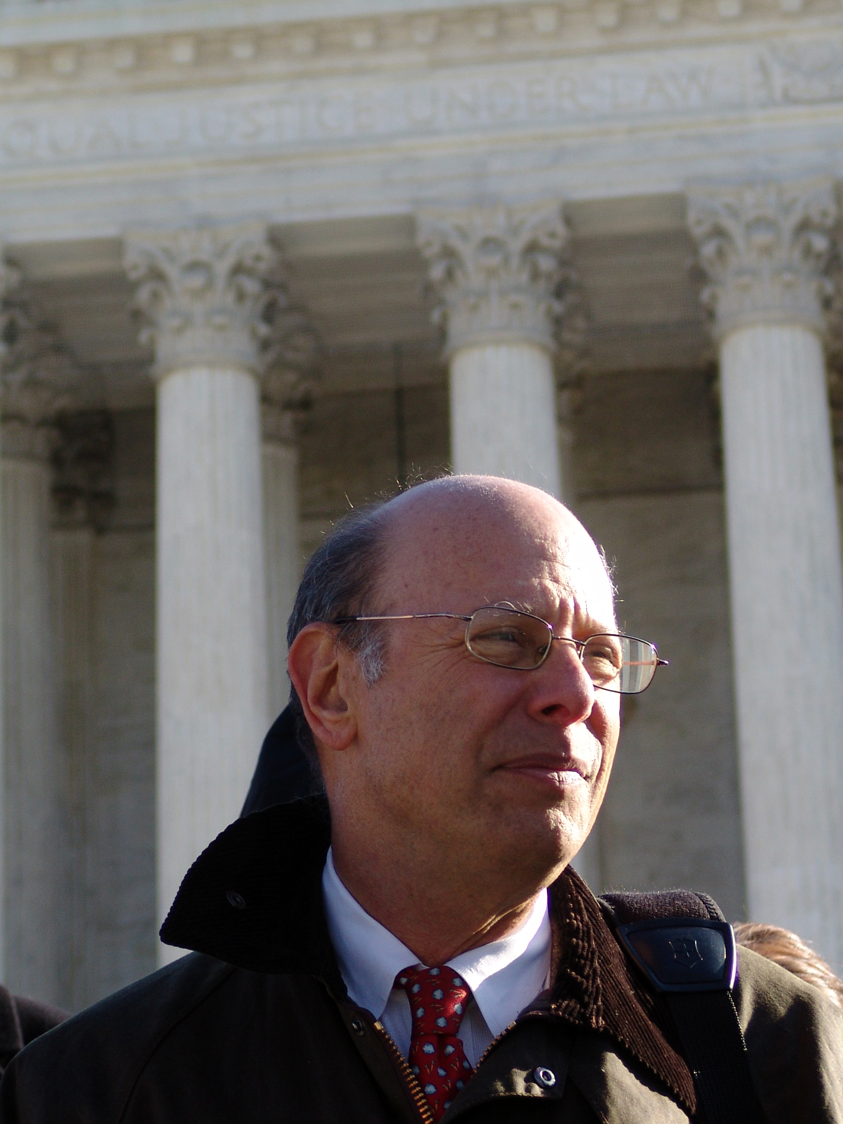 Michael Ratner, president of the Center for Constitutional Rights, in front of the US Supreme Court in Washington DC.